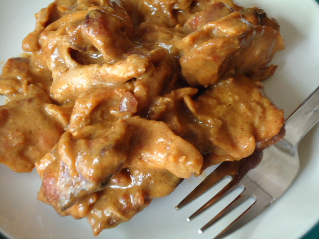 Chicken with honey mustard